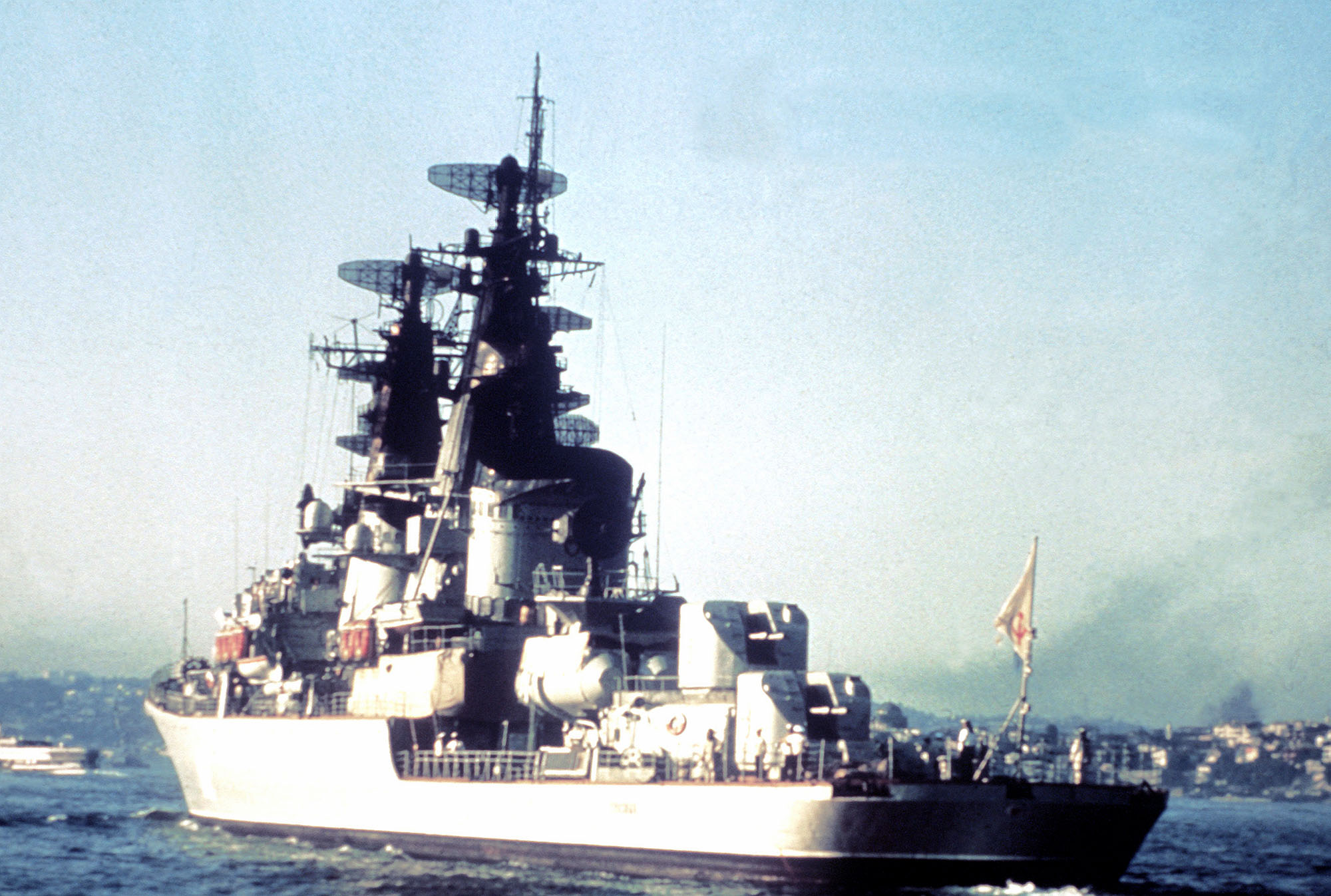 A port quarter view of the Soviet guided missile cruiser Groznyy.